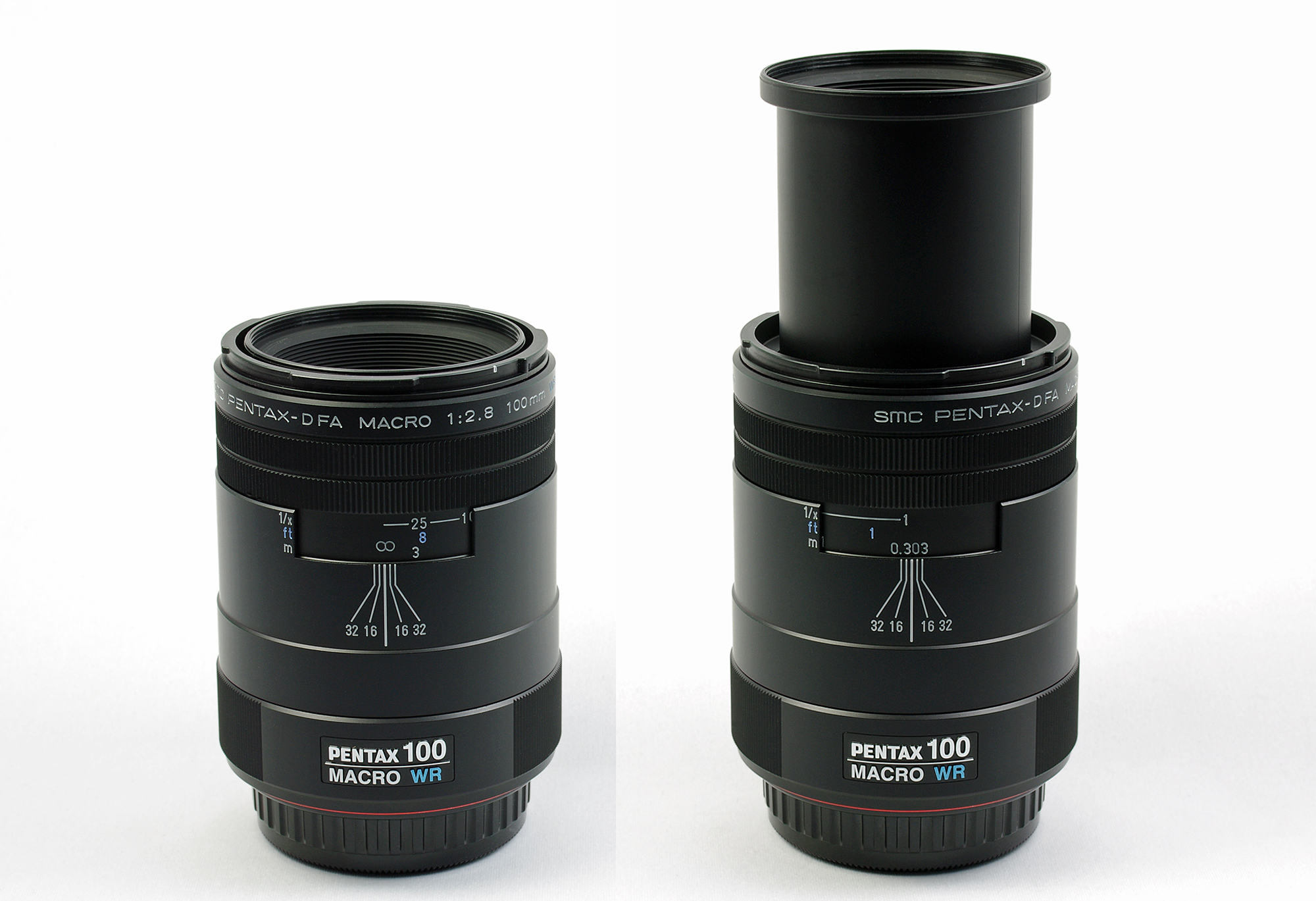 The telemacro lens Pentax smc D-FA 100 mm / 2.8 Macro WR, with focusing on "infinity" and on close range. When a lens hood is mounted, the extending inner tube is not visible.